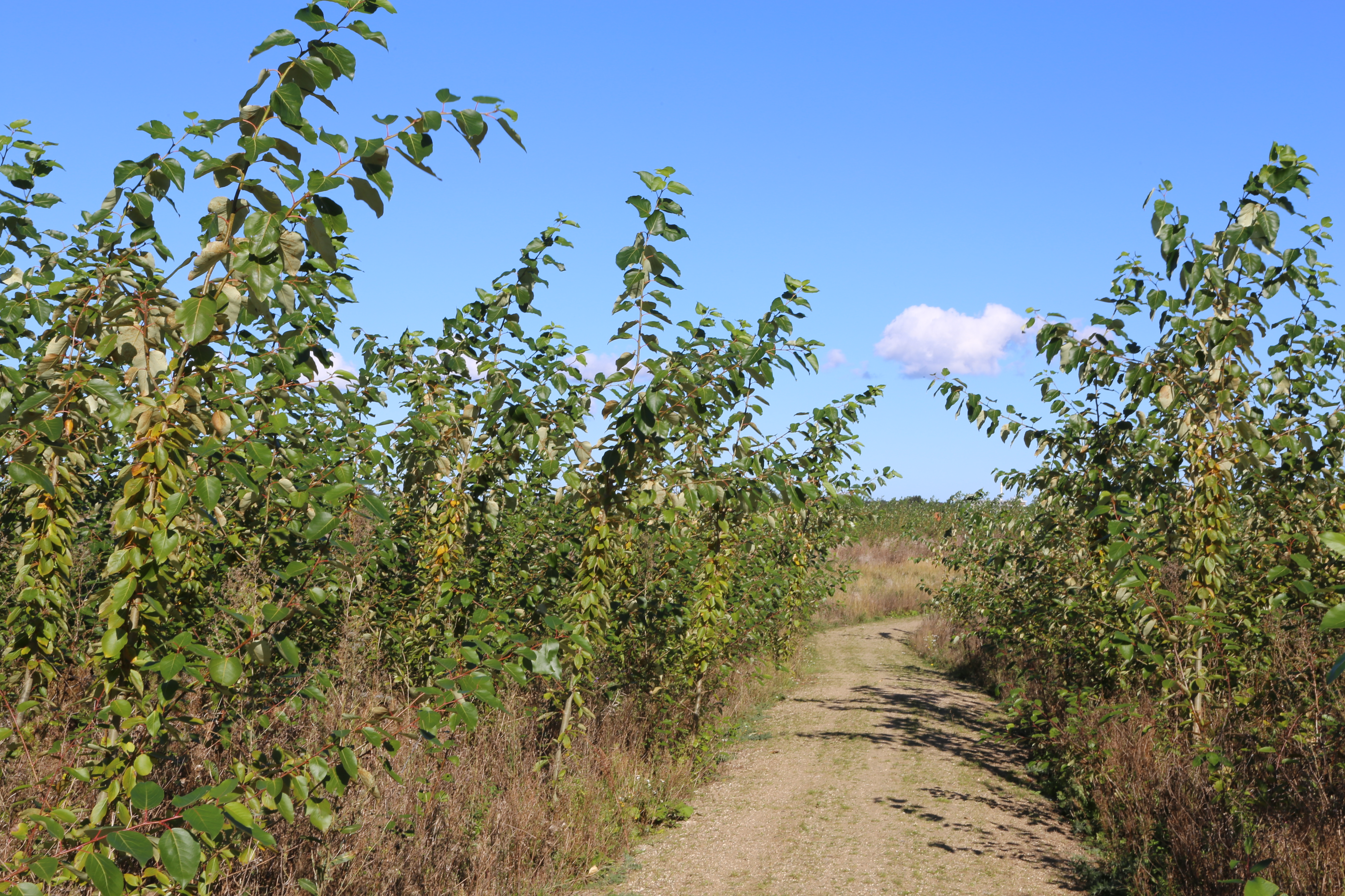 Path in Elmelund forest, Odense, Denmark.